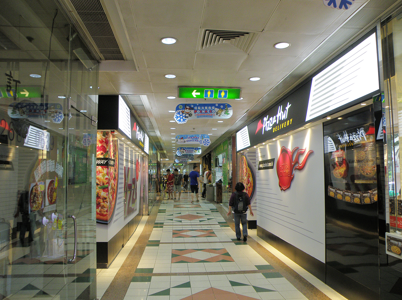 Flora Plaza in Fanling, Hong Kong.